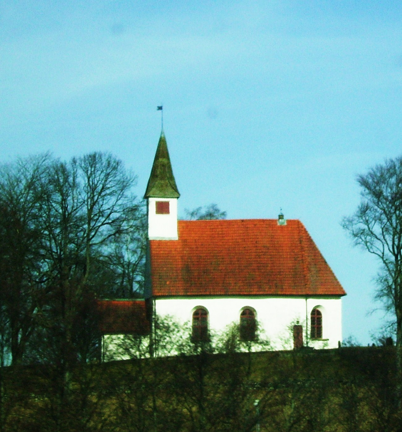 Picture of Hols church in Sweden